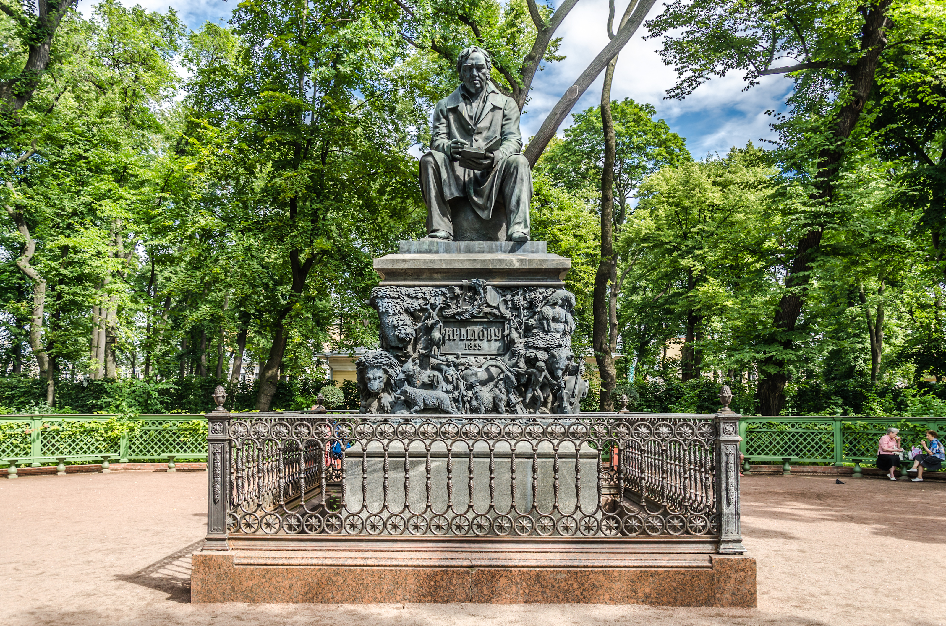 Monument to Ivan Krylov in Summer garden of Saint Petersburg